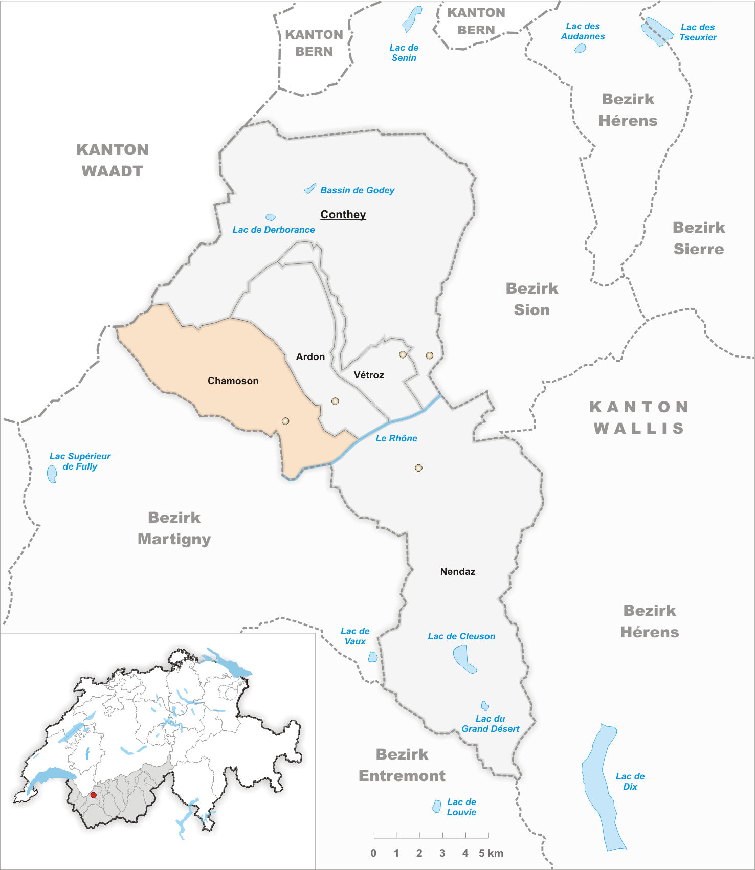 Municipality Chamoson